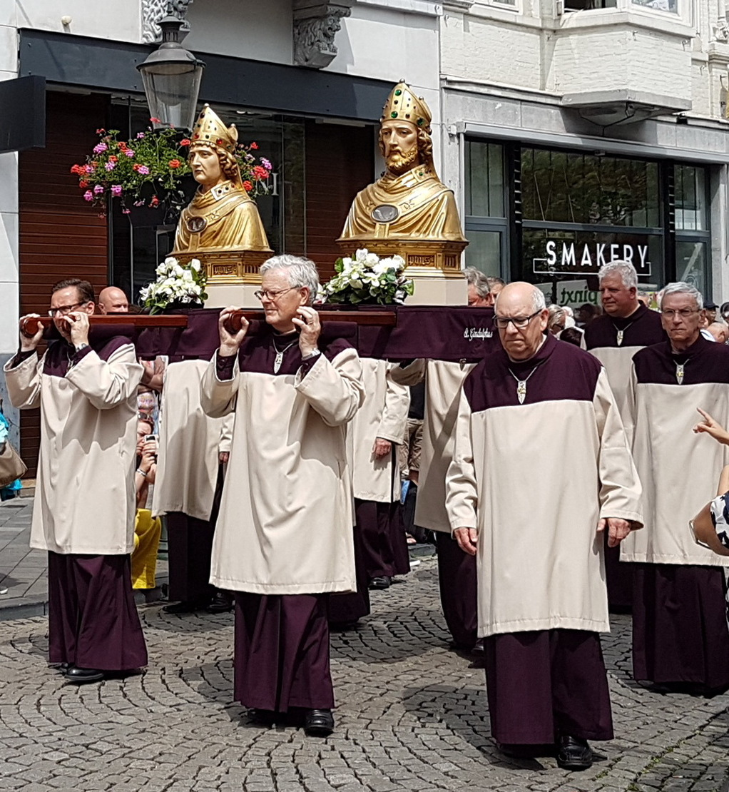 Participants in a historic religious procession during the 2018 Heiligdomsvaart (Relics Pilgrimage) in Maastricht, Netherlands. The history of this seven-yearly catholic pilgrimage goes back to the Middle Ages. The first 'modern' version took place in 1874. On both Sundays of the 10-day festival, a procession is held in which the main relics and other devotional objects are exhibited. This photo was taken in Stationsstraat during the (first) procession on Sunday 27 May 2018. This particular group are the bell ringers guild of the Basilica of Saint Servatius, named after the 6th-century bishops of Maastricht, Saint Monulph and Saint Gondulph. Members of the guild traditionally carry the reliquary busts of the two saints on a processional litter.